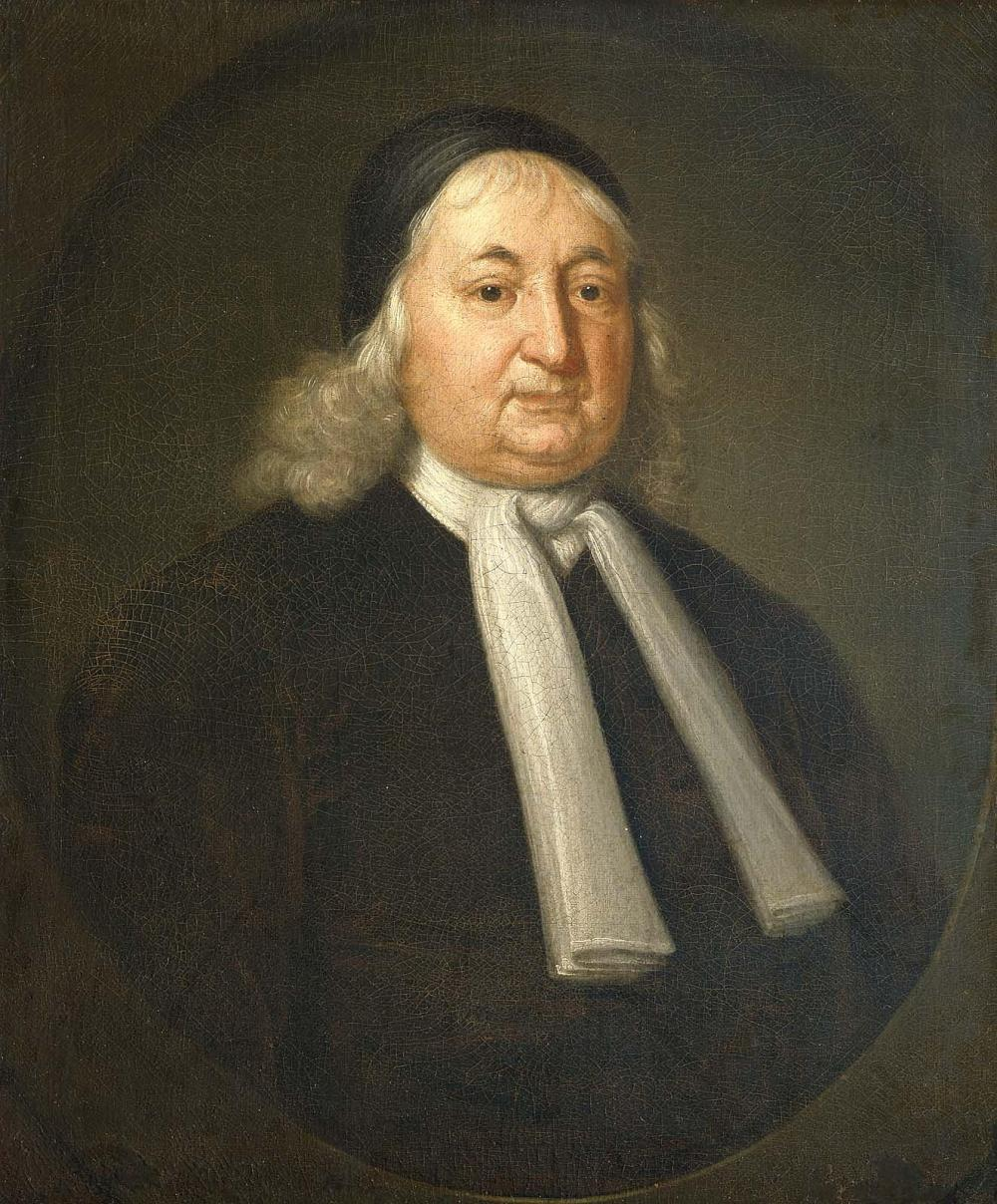 John Smibert’s 1739 portrait of Samuel Sewall in the Museum of Fine Arts, Boston.